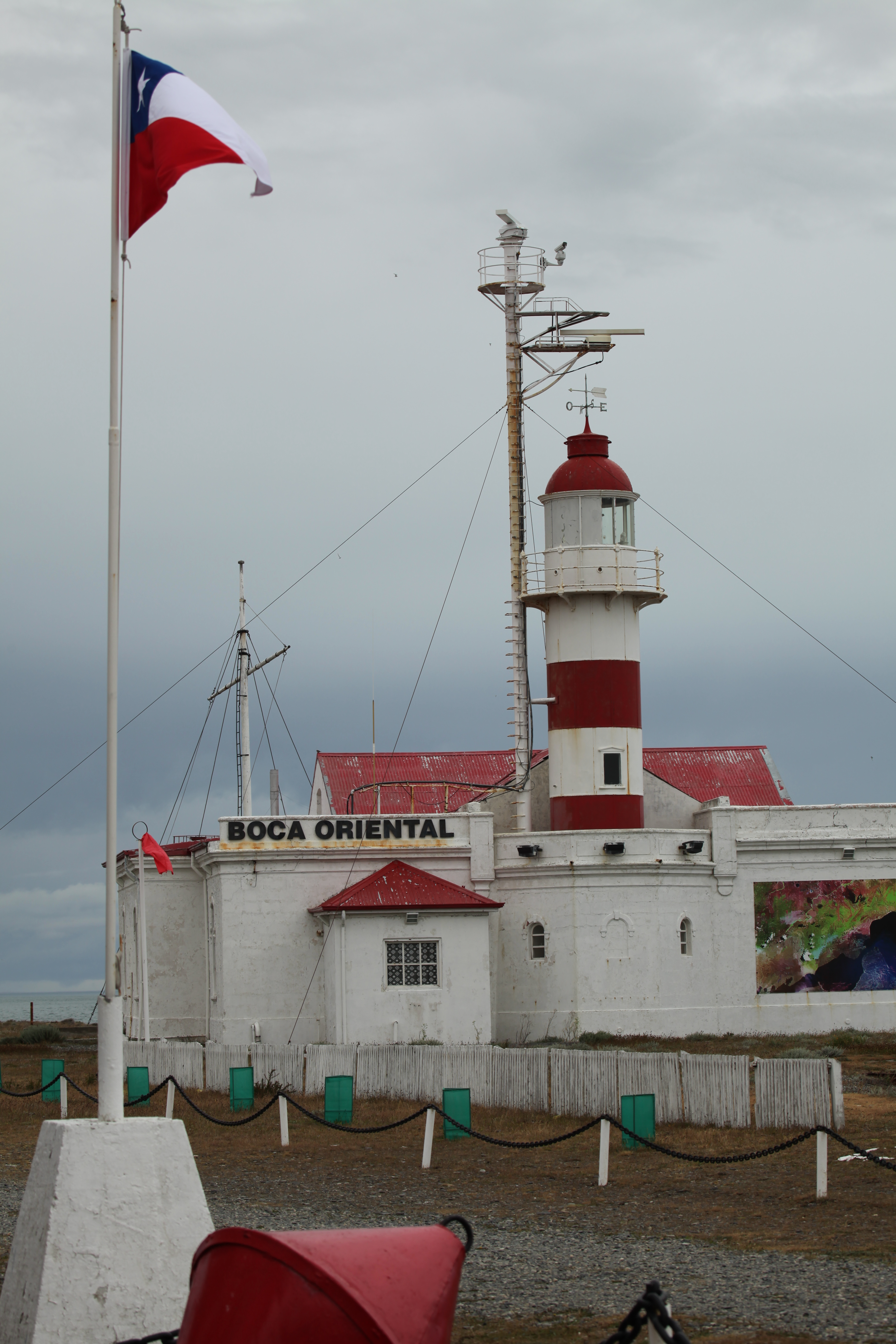 Chilean station at Strait of Magellan crossing. See Mural with Aerial photographs of Primera Angostura